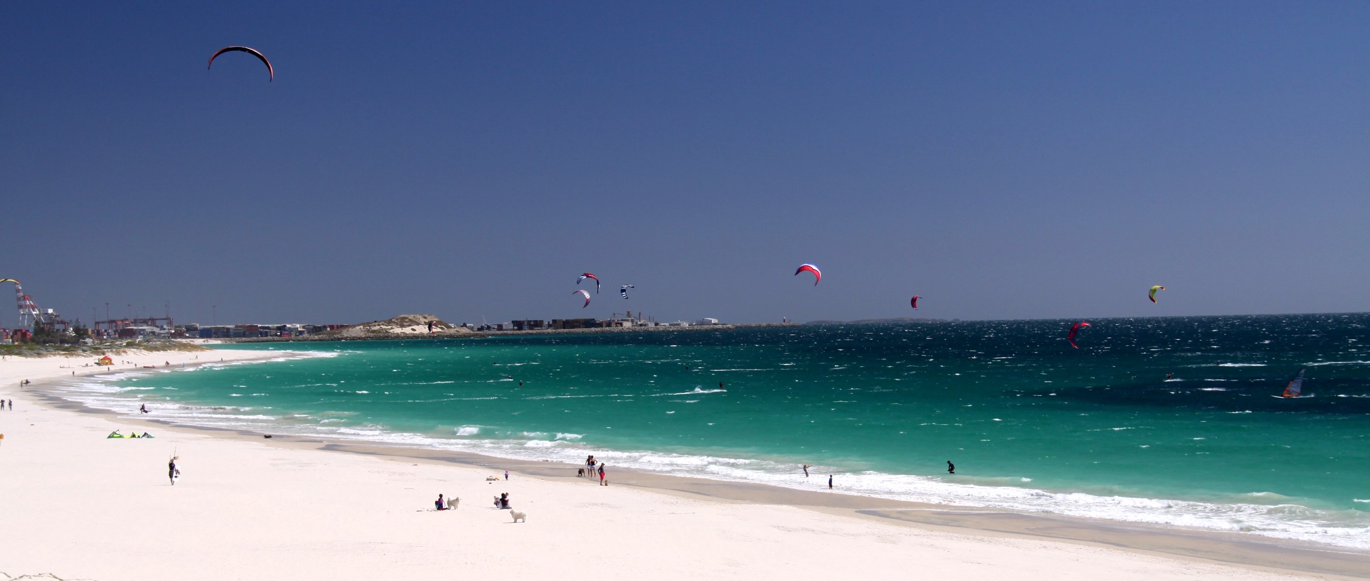 Port beach - North Fremantle, Australia